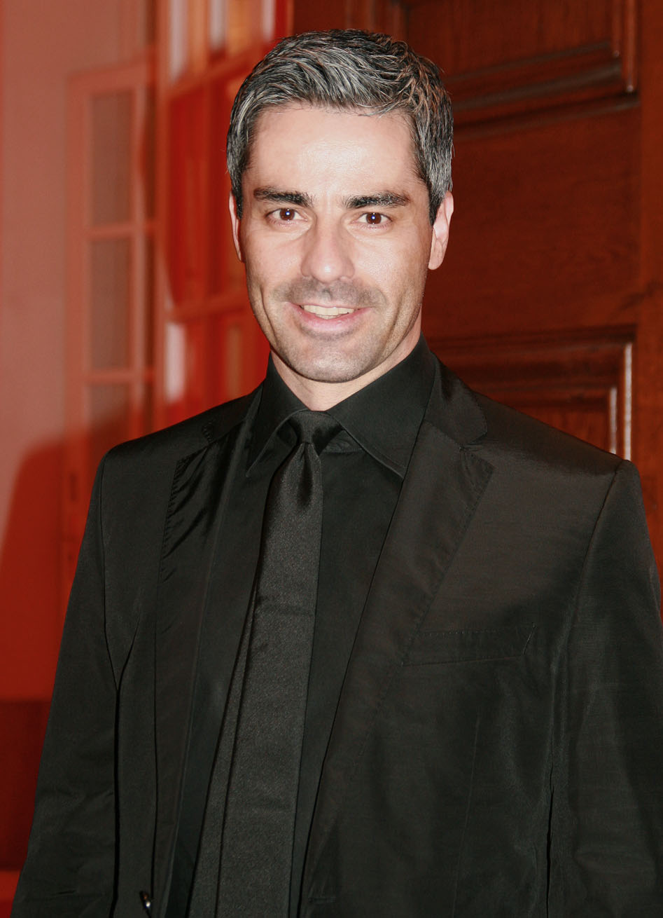 Roman Rafreider at the Romy TV awards (Hofburg Imperial Palace in Vienna)